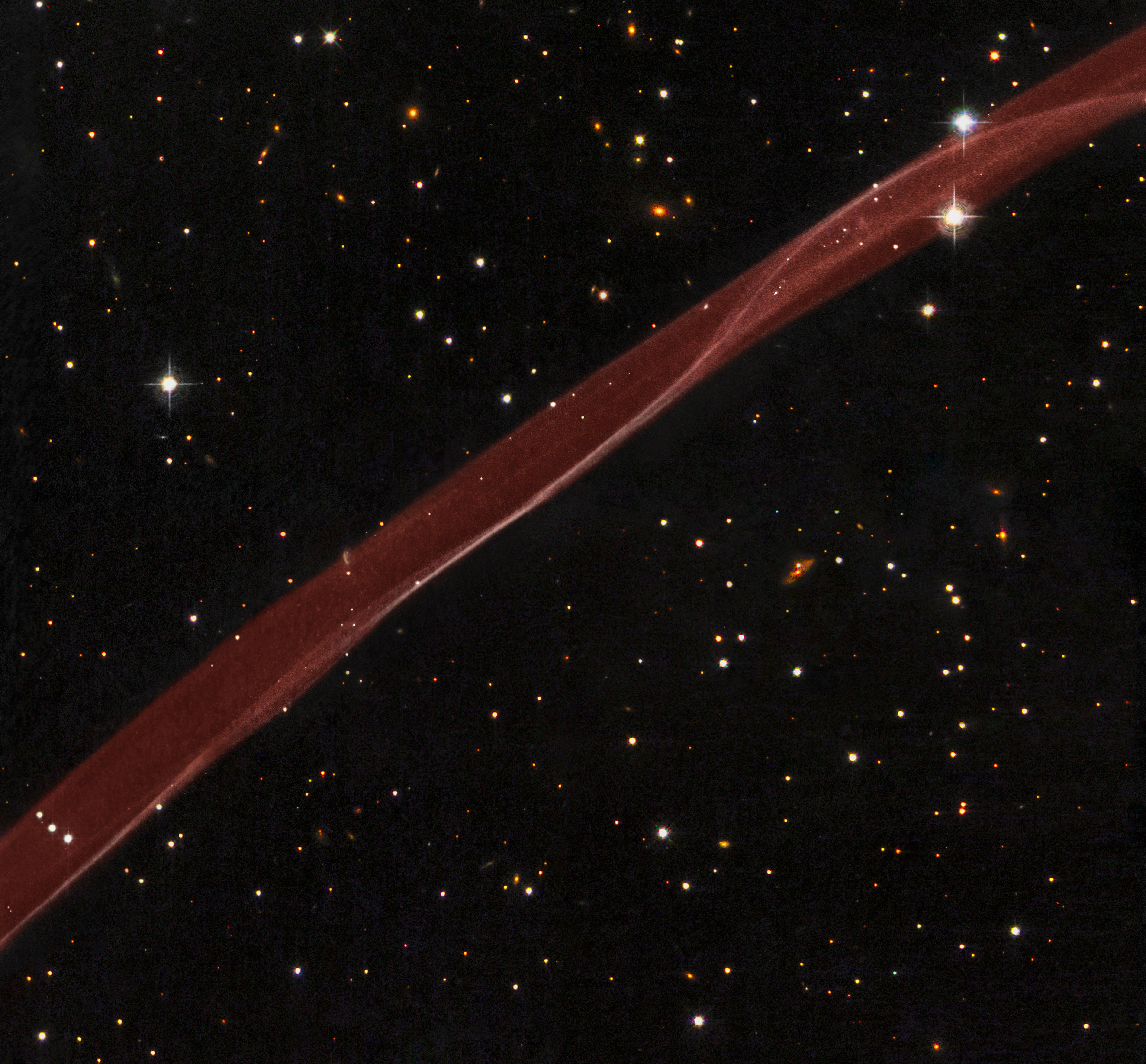 This image, taken by NASA's Hubble Space Telescope, is a very thin section of a supernova remnant caused by a stellar explosion that occurred more than 1,000 years ago. This image is a composite of hydrogen-light observations taken with Hubble's Advanced Camera for Surveys in February 2006 and Wide Field Planetary Camera 2 observations in blue, yellow-green, and near-infrared light taken in April 2008. The supernova remnant, visible only in the hydrogen-light filter was assigned a red hue in the Heritage color image.